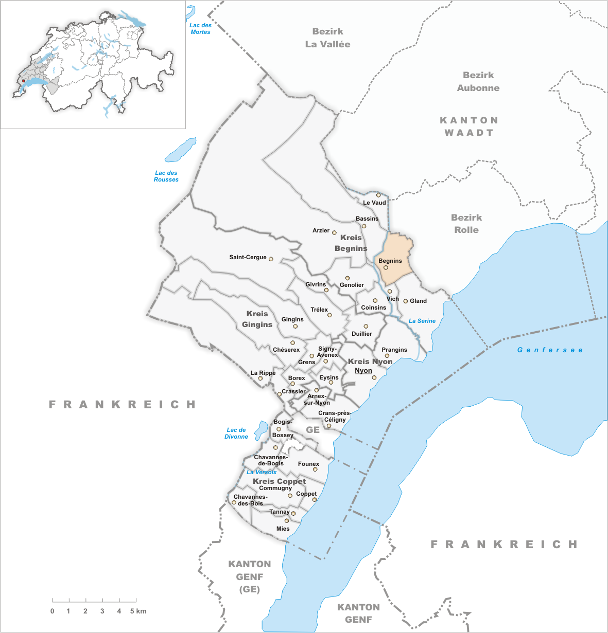 Municipality Begnins